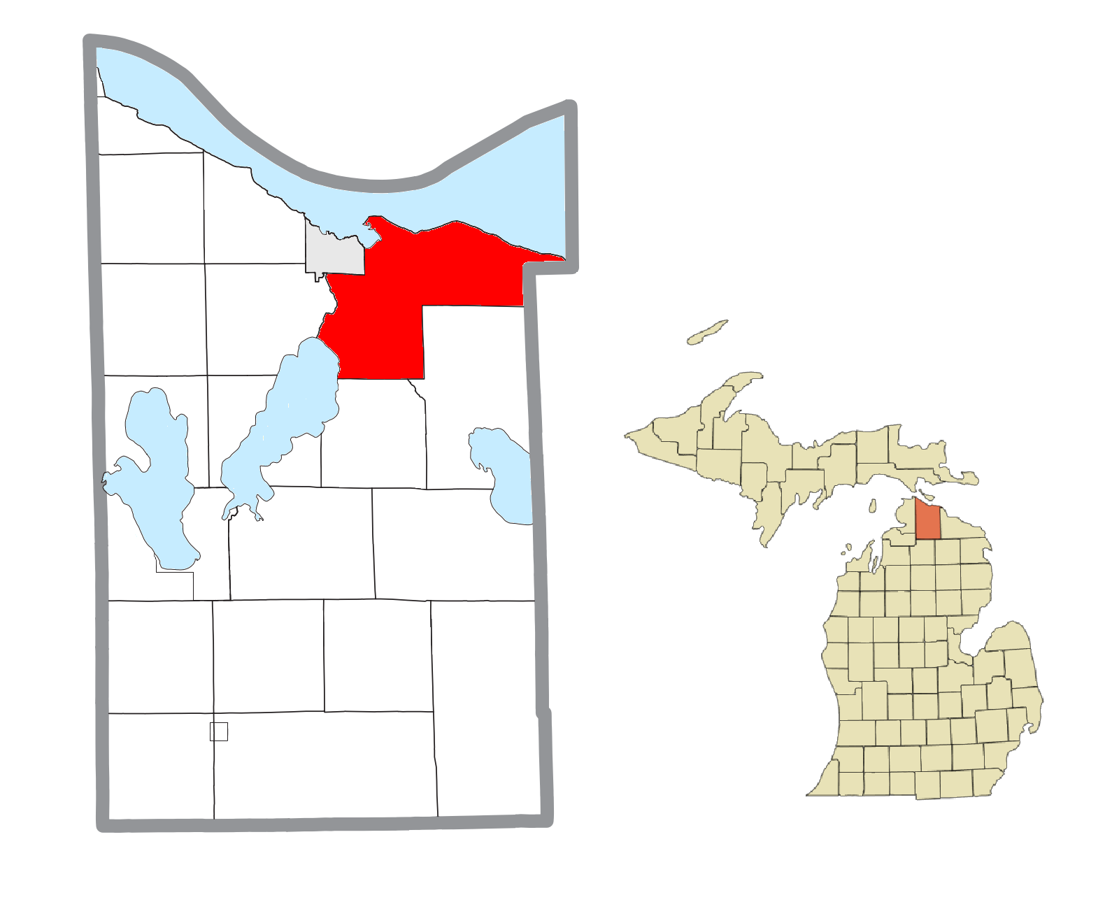 Benton Township, MI